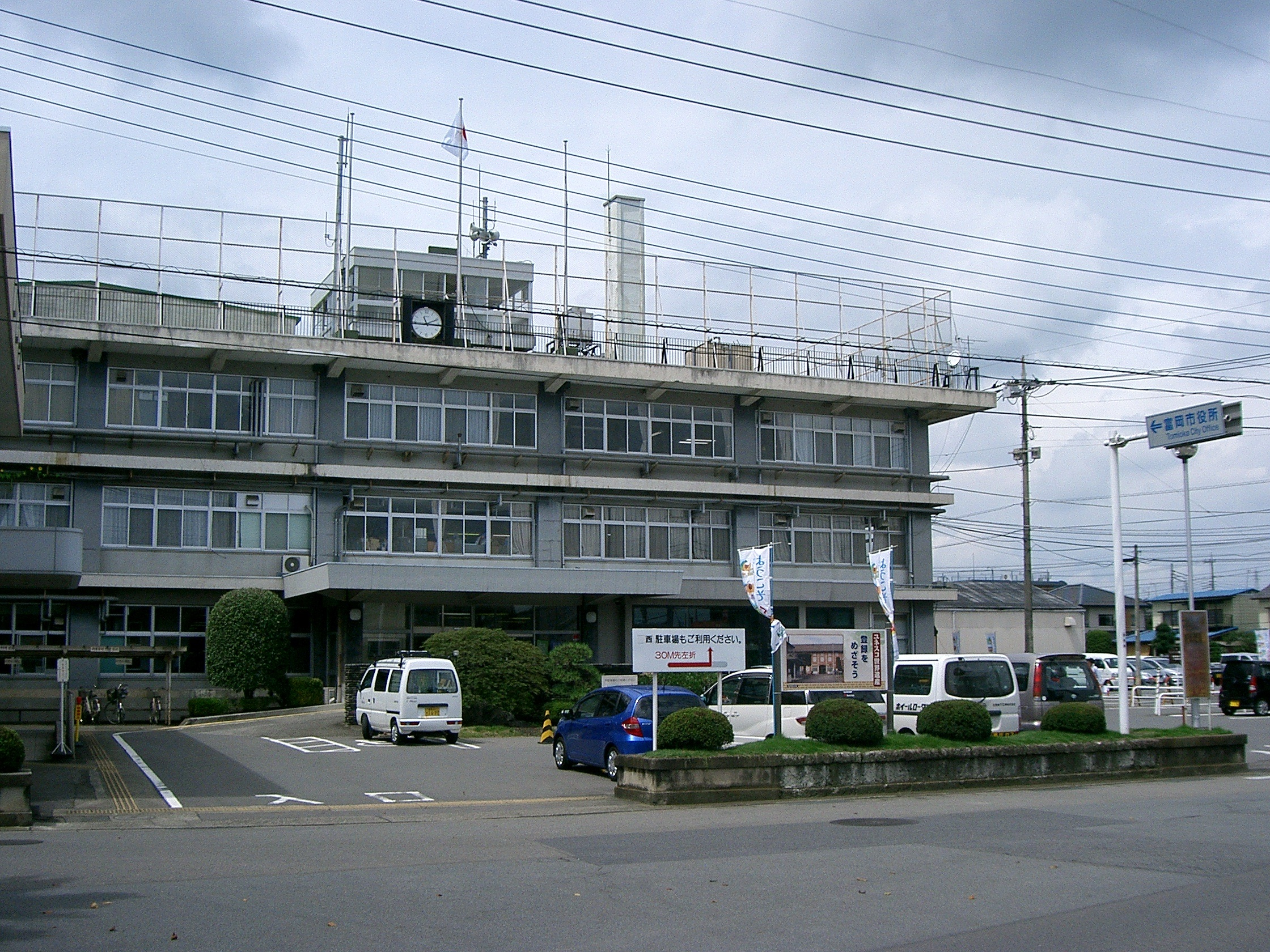 Tomioka city hall; Tomioka office